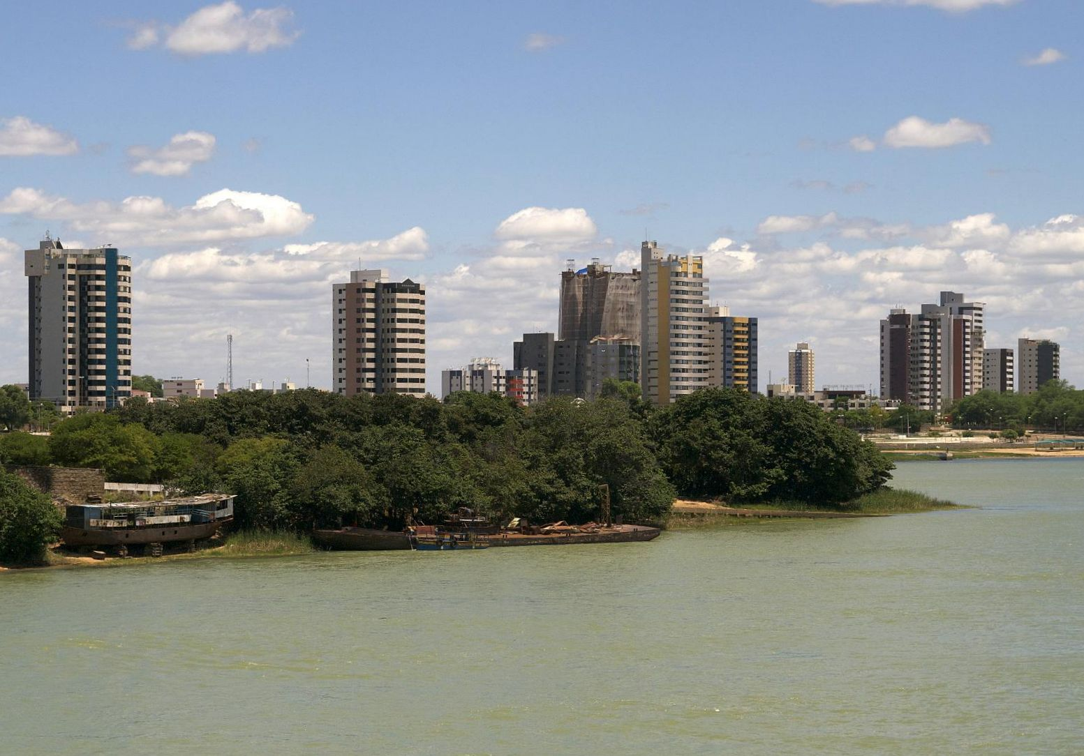 Petrolina, Pernambuco, Brazil.